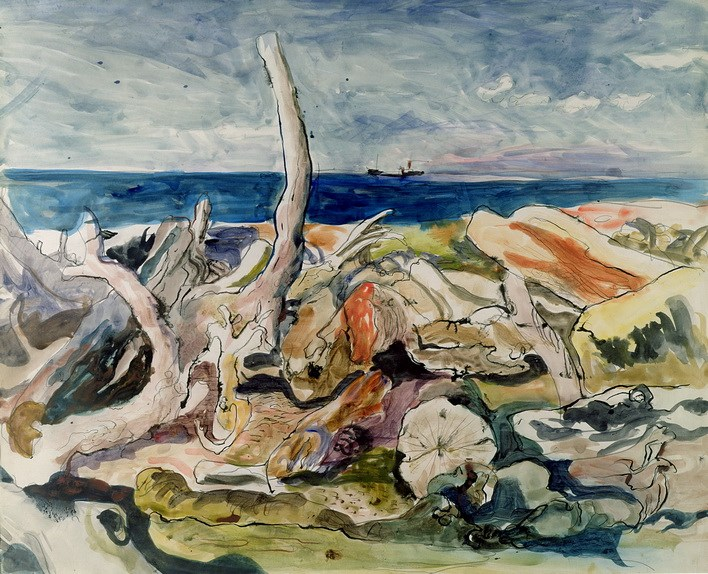 William Geissler's Flotsam and Jetsam (ca 1945). Watercolour, pen and ink. In the foreground a jumble of tree branches, logs and rusting iron, in the distance a passing ship. The Bass Rock that can just be distinguished on the horizon to the right of the picture sets the site on the East Lothian coast of the Firth of Forth in Scotland, probably near Dirleton.